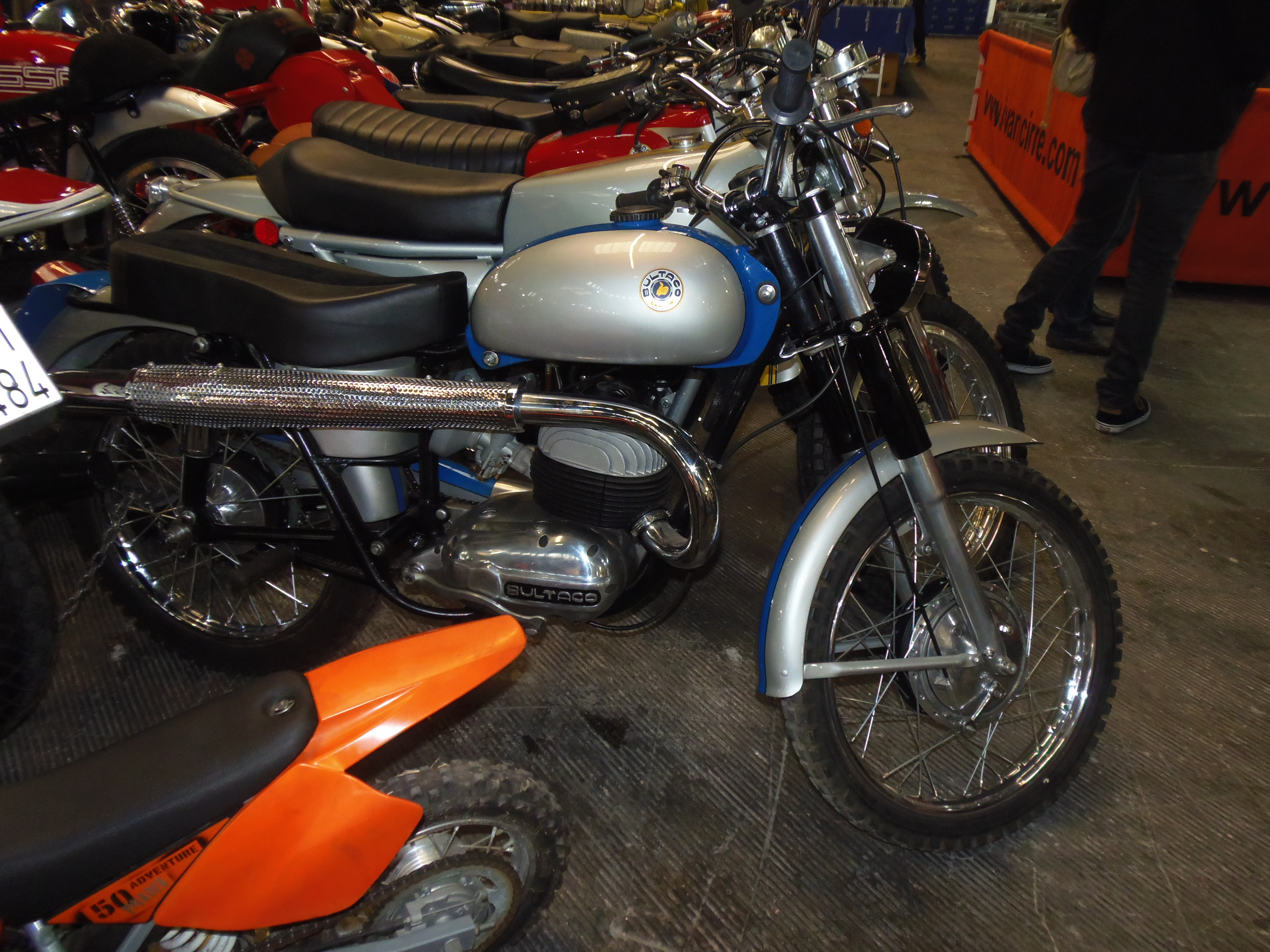 Bultaco Sherpa N, 1960